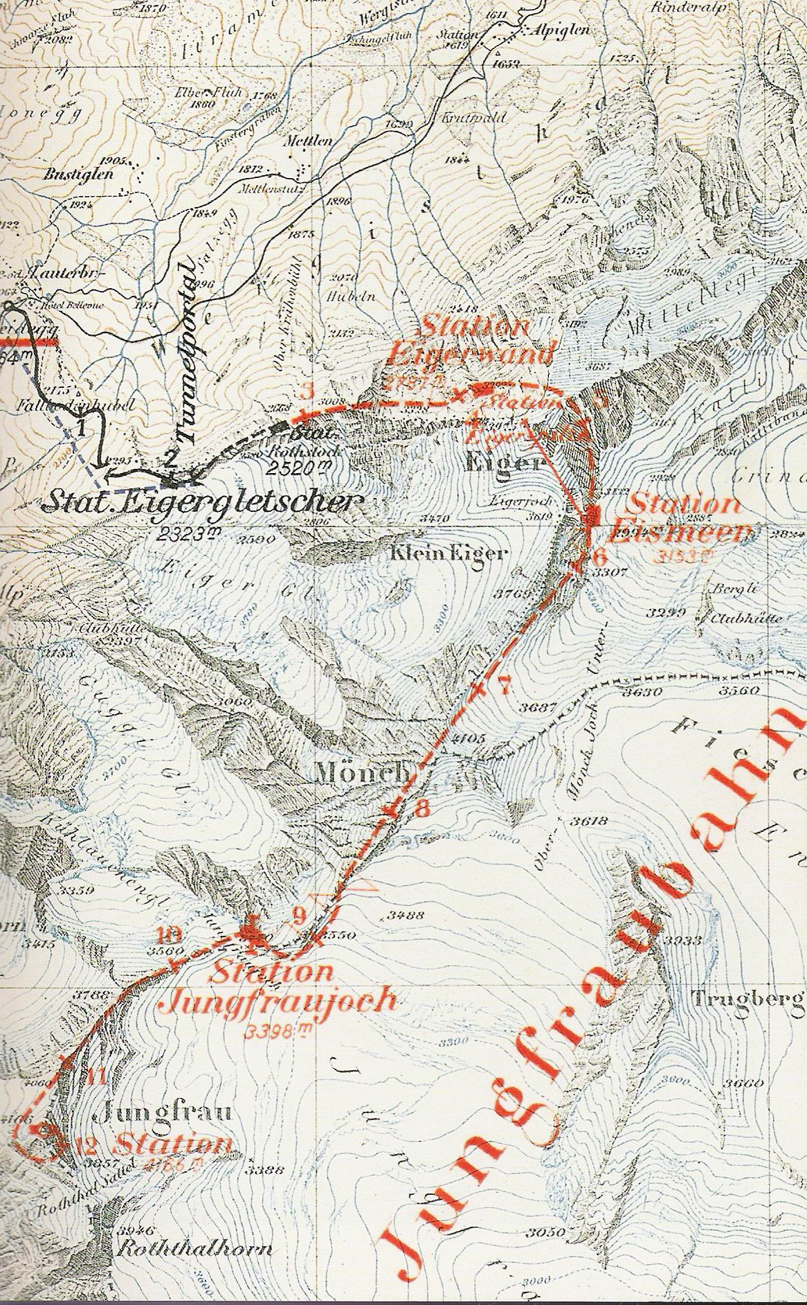 Map showing plans for the route of the Jungfraubahn and a gondola lift on the top of eiger.